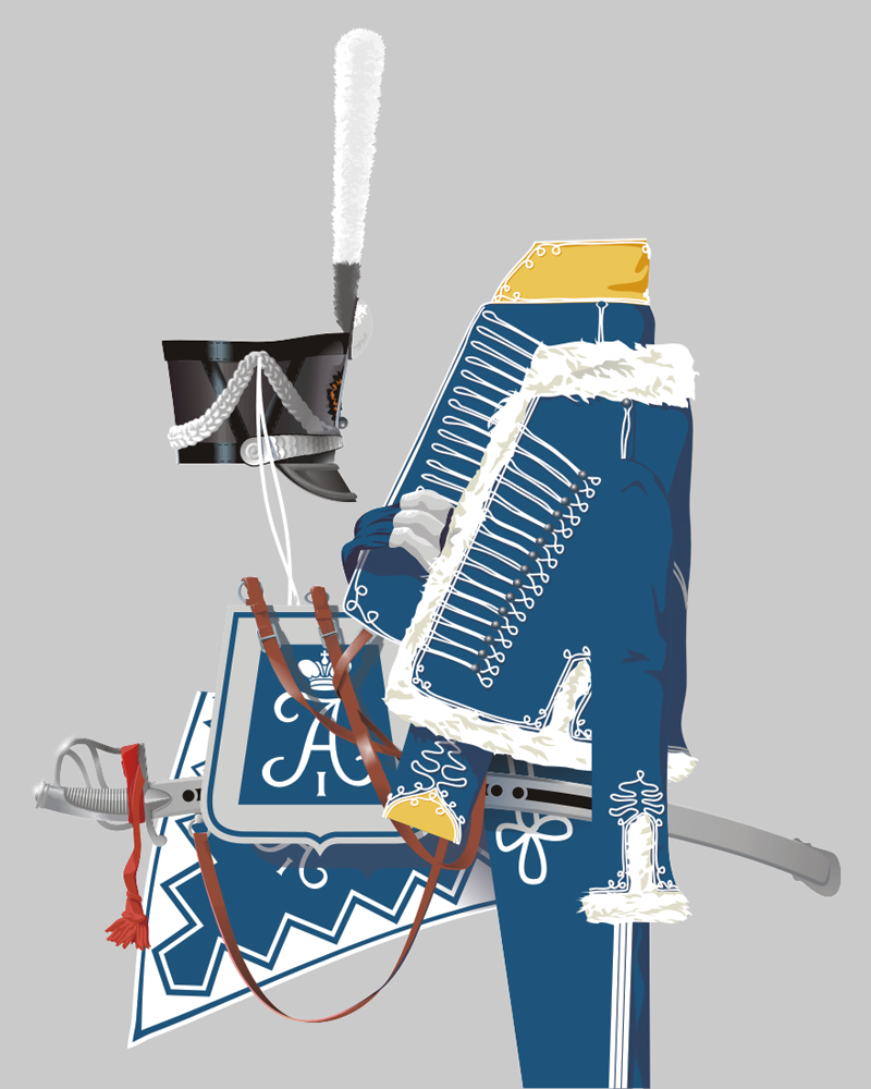 Trooper of Lubny Hussar regiment’s full dress: dolman, pelisse, barrel sash, breeches, shako (here of 1812), shabraque, sabretache & sabre. Russian army of 1812